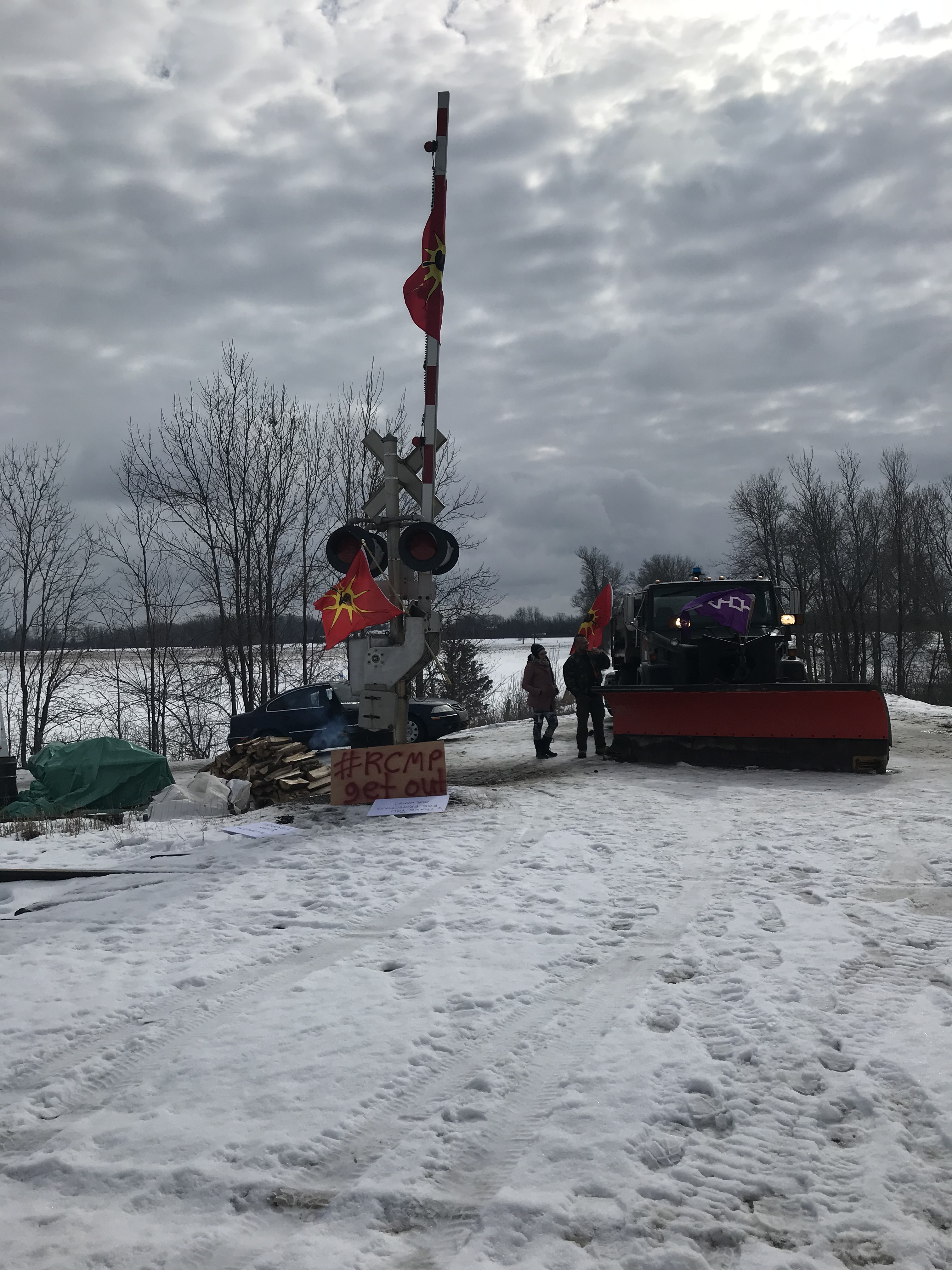 Mohawk protesters stand by a snowplow covered in Iroquois and Mohawk Warrior flags near a level crossing at Wyman Rd with firewood and a wooden sign that reads "#RCMP get out". One of a series of photographs taken by Bobby-Jo Morris at the demonstration at the railway lines in the Tyendinaga Mohawk Territory in support of the Wetʼsuwetʼen protest against the construction of the Coastal GasLink pipeline through their territory.